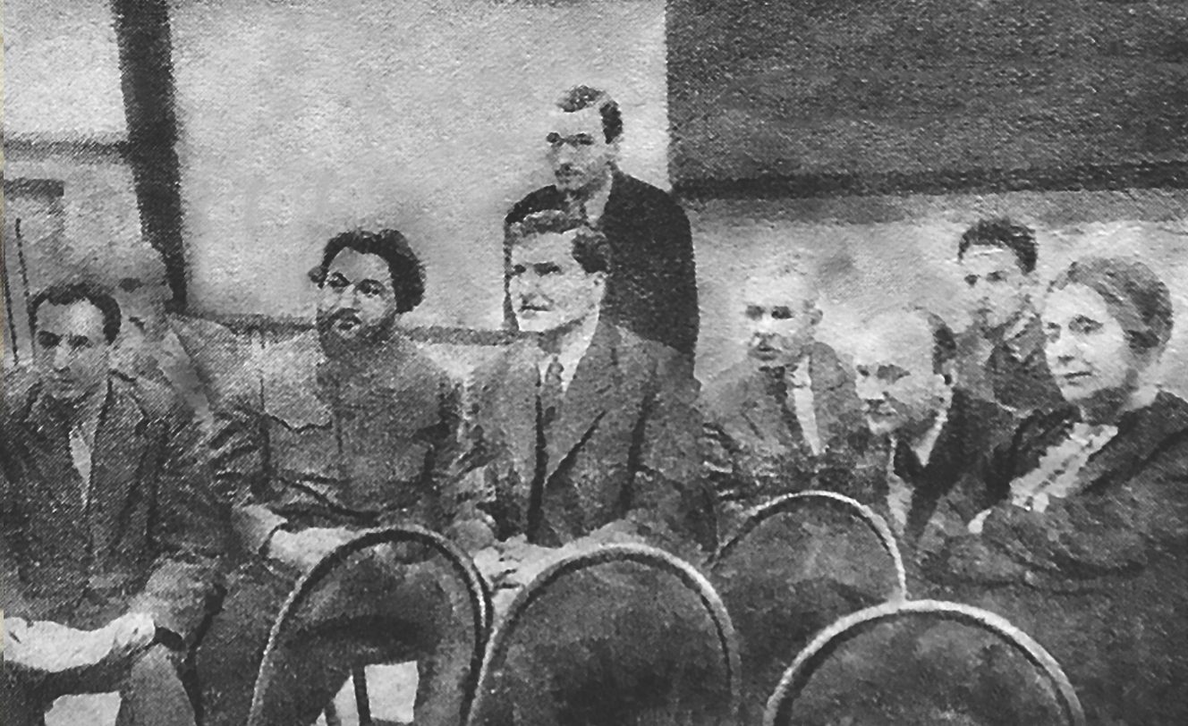 Vlas Chubar and Artemy Khalatov 1936